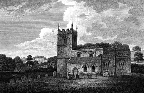 SS Andrew and Mary parish church, Stoke Rochford, Lincolnshire, seen from the south